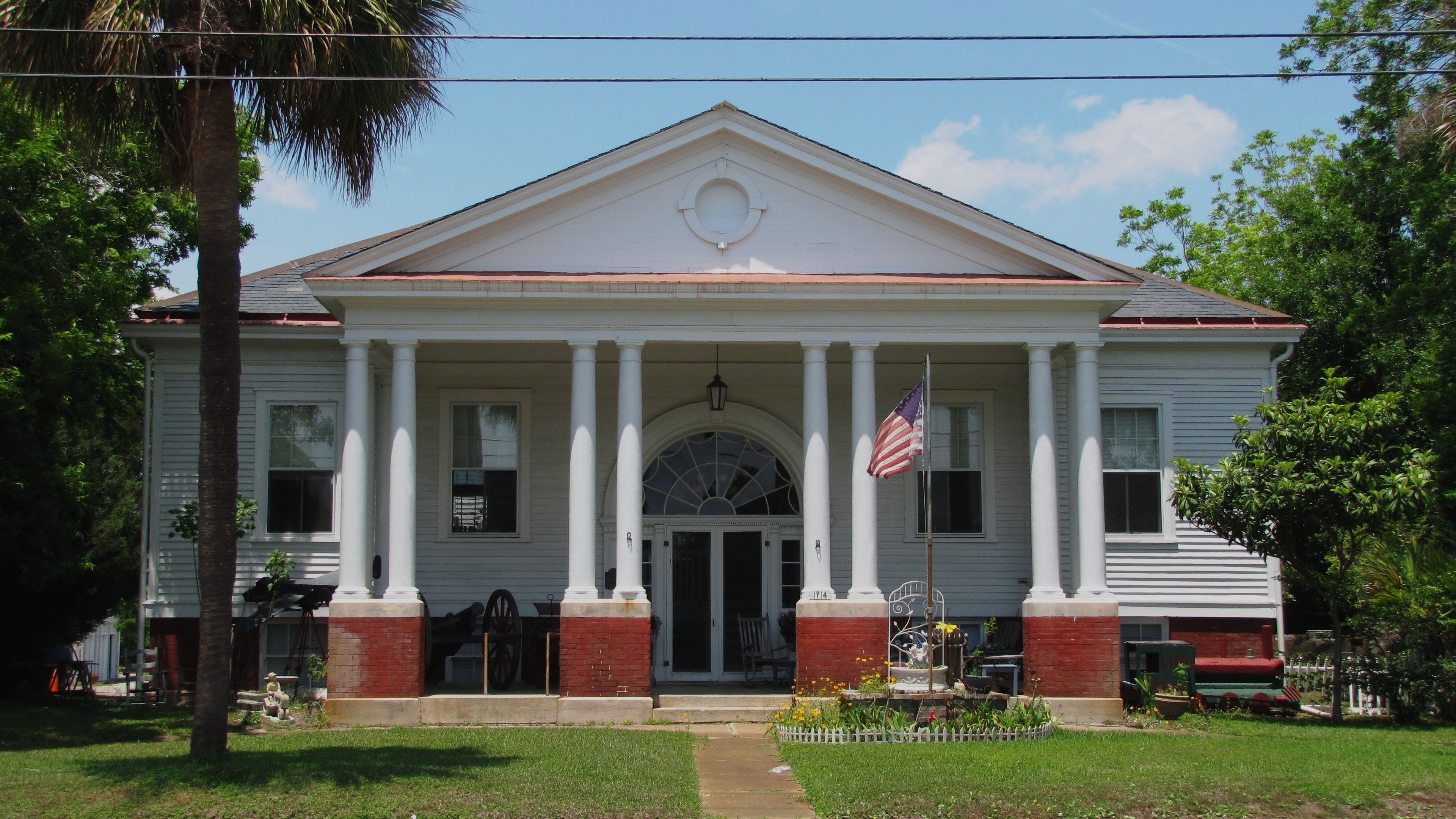 The Fort Moultrie Post Exchange on Sullivan's Island in Charleston County, South Carolina, USA. Built in 1906, this building is listed as a contributing building in the NRHP-listed Sullivan's Island Historic District.